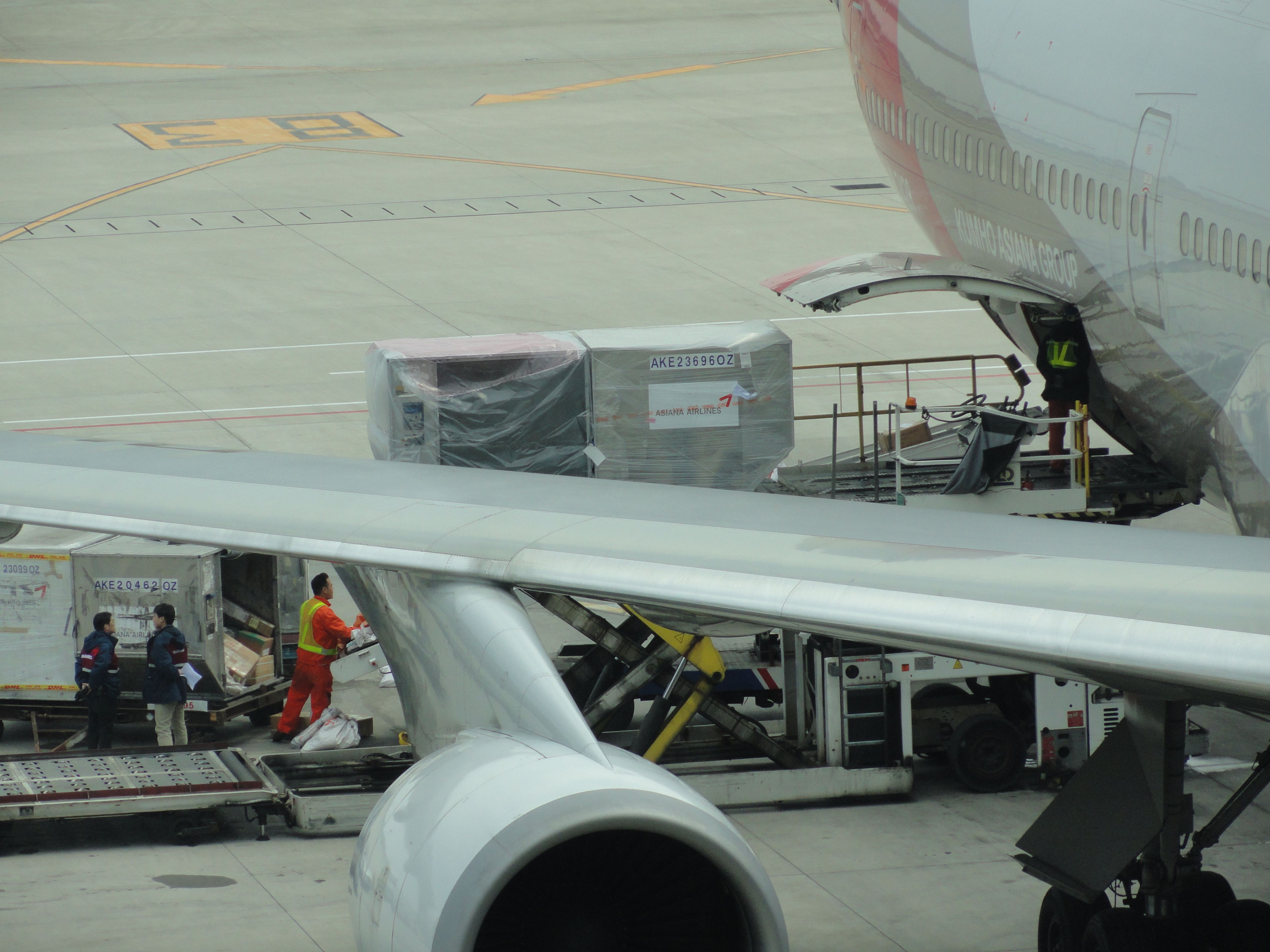 Airmail being loaded onto an Asiana Airlines flight from Shanghai to Seoul.